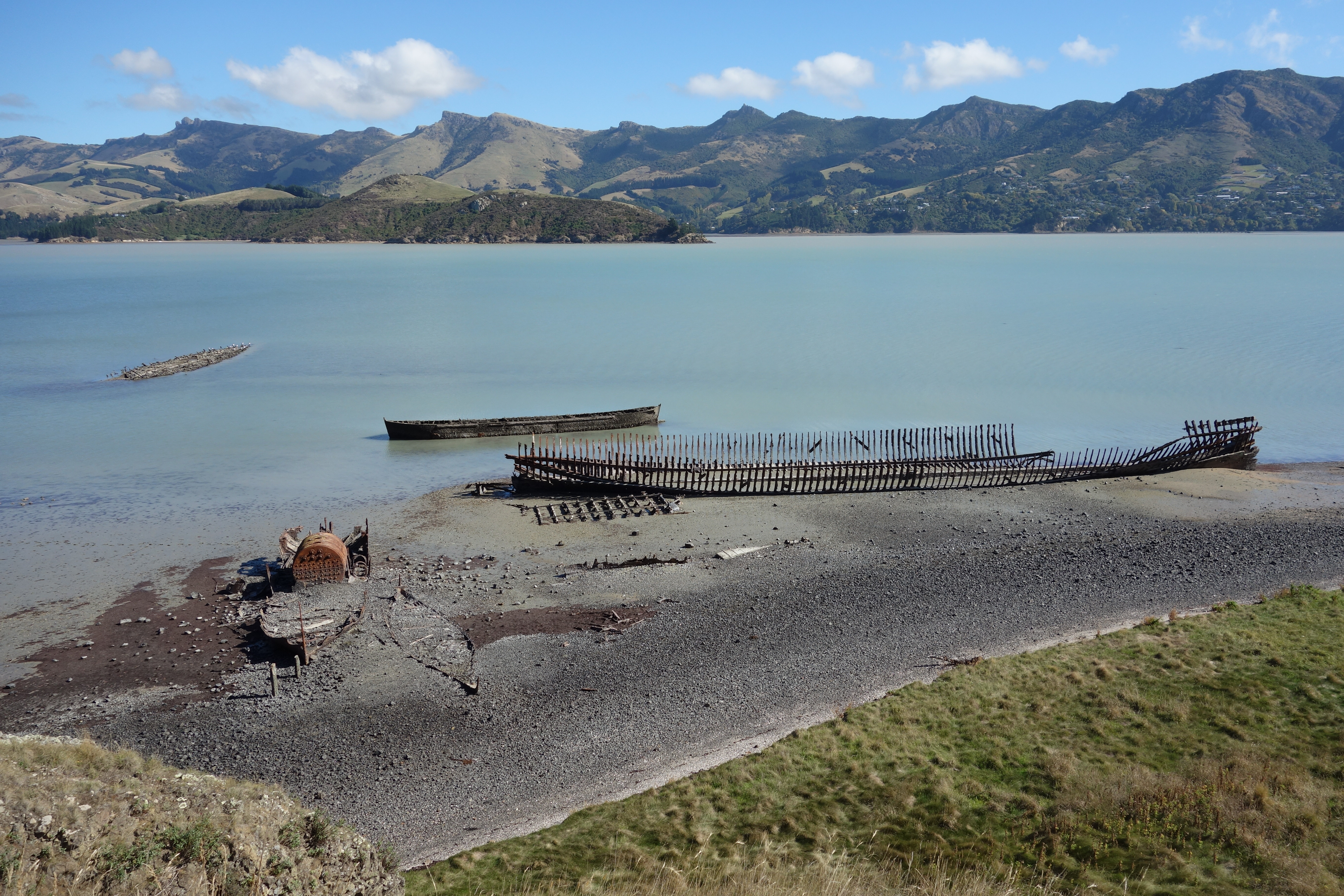 Quail Island in April 2016